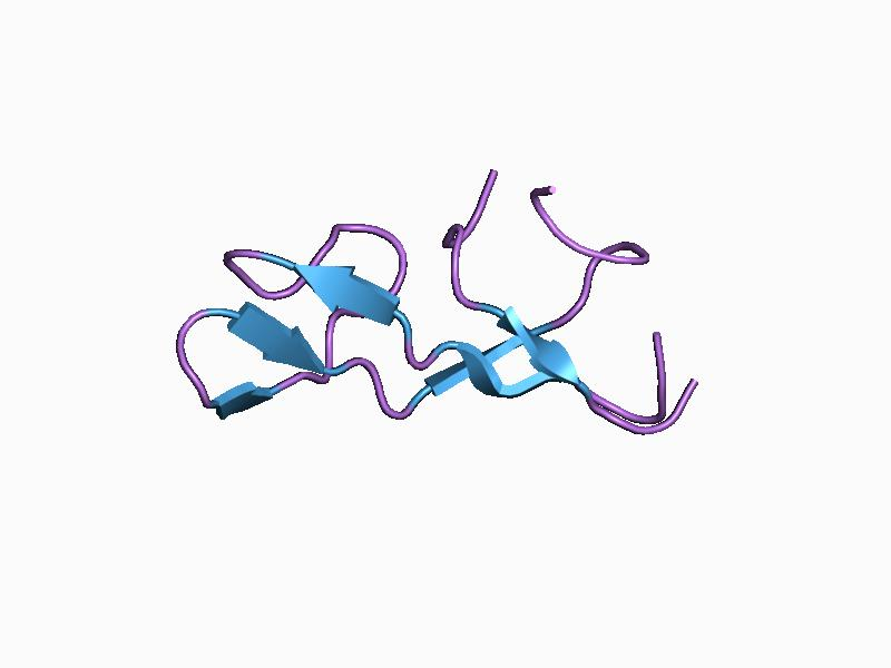 Cartoon representation of the molecular structure of protein registered with 1bi6 code.